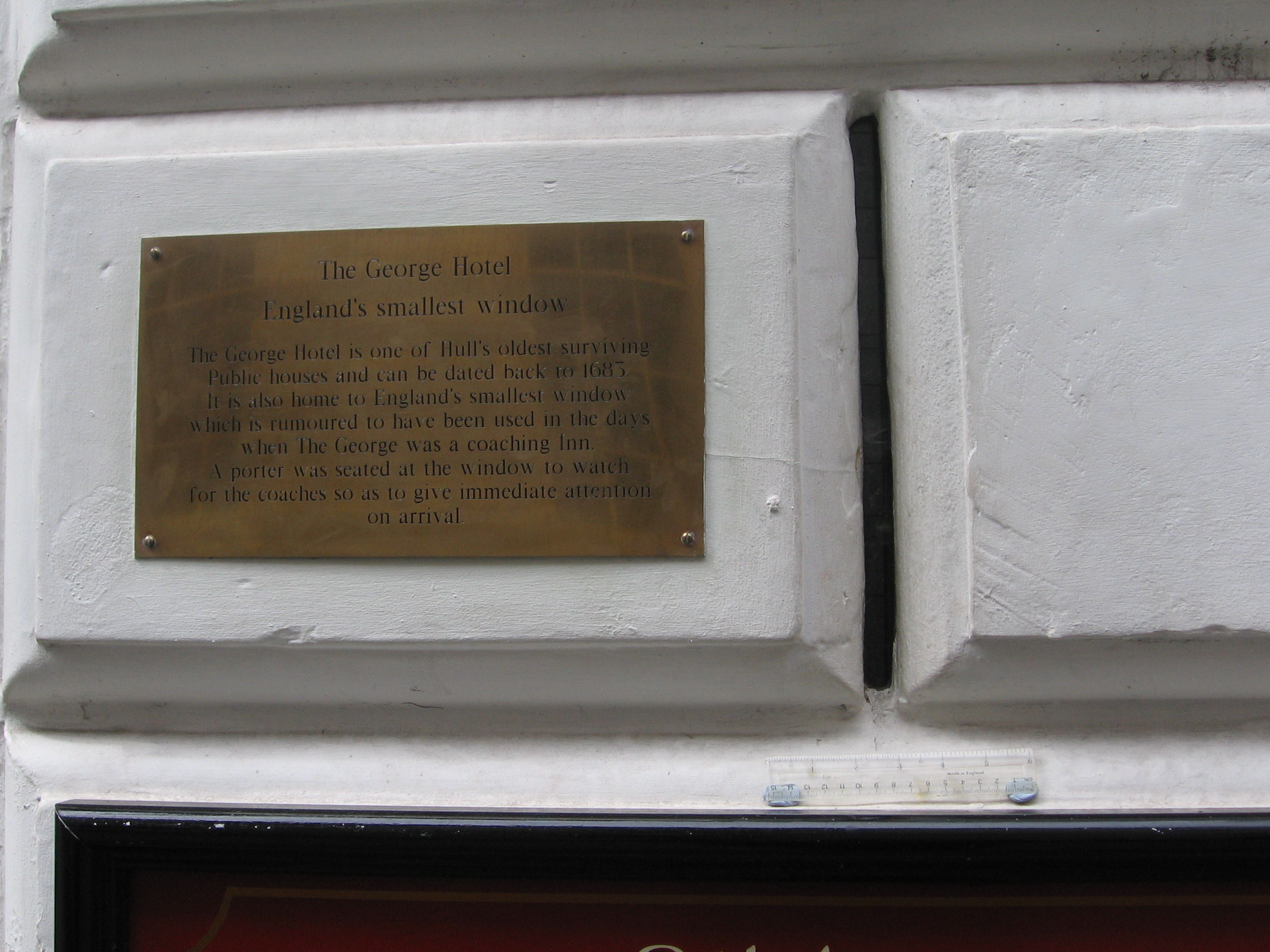 England's smallest window, the George Hotel, the Land of Green Ginger, Kingston upon Hull, East Riding of Yorkshire, England.